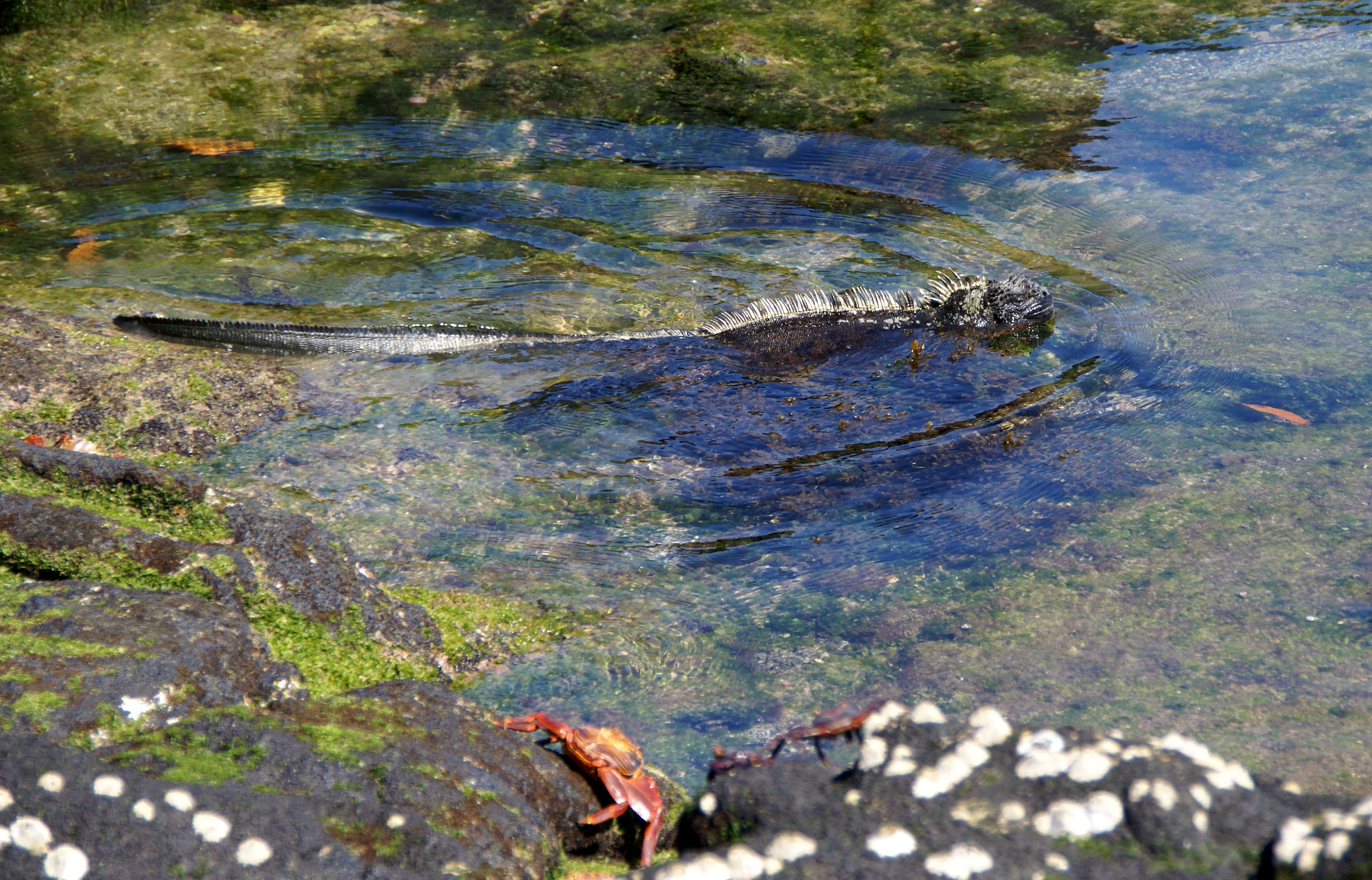 A Marine Iguana (Amblyrhynchus cristatus) swimming in the water at Punta Espinosa, Fernandina island (Galapagos Islands).